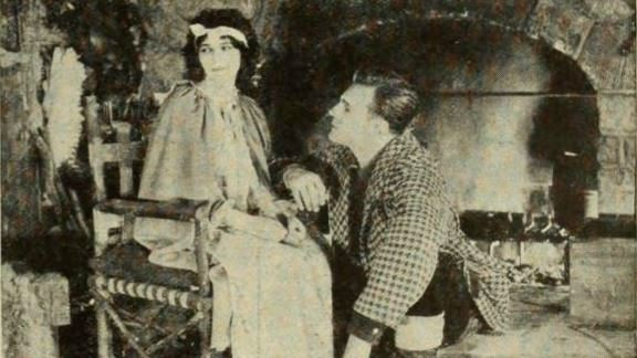 Still from the American film Trooper O'Neill (1922) with Beatrice Burnham and Buck Jones (listed as Charles Jones), on page 61 of the October 1922 Photoplay.